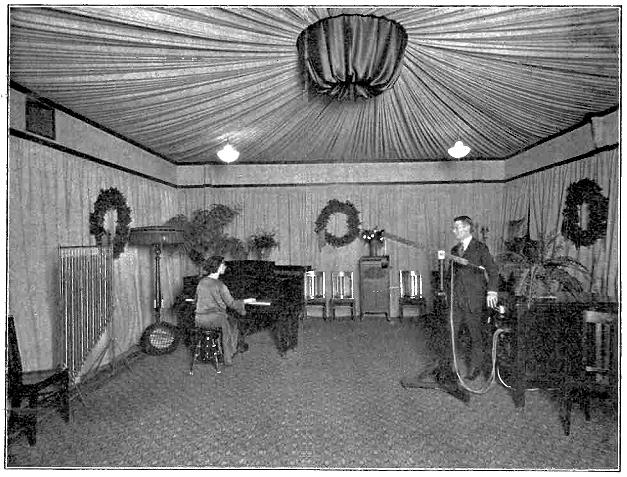 Photograph of radio station KDKA studio. Original caption: "New KDKA Studio Recently Opened at Main Works of the Westinghouse Electric & Mfg. Co., East Pittsburgh, Pa."